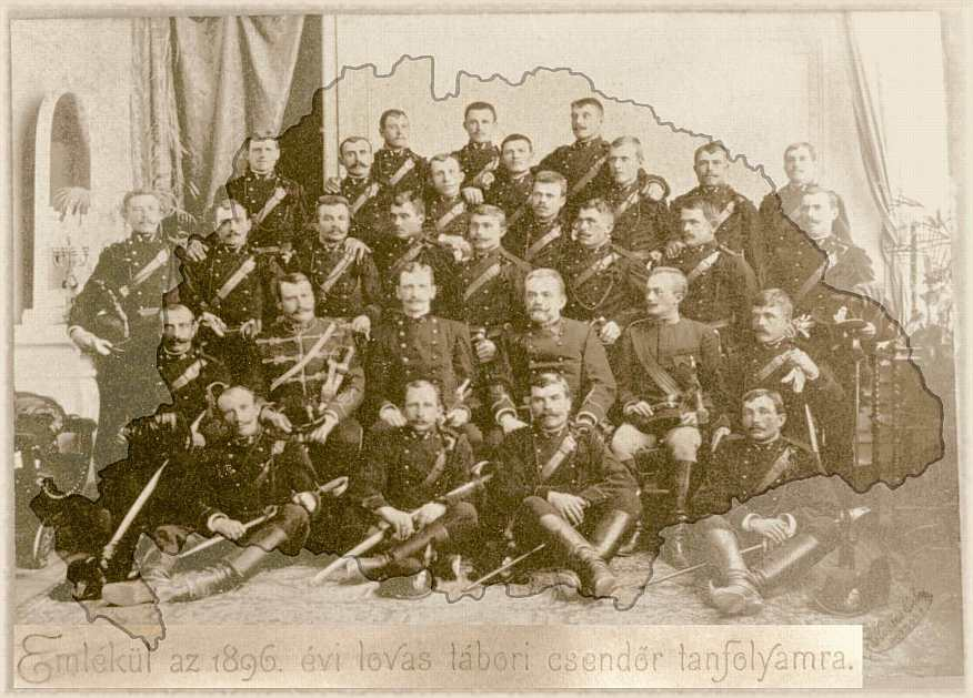 Egy 1896 évi lovas tábori csendőr tanfolyam emléklapja